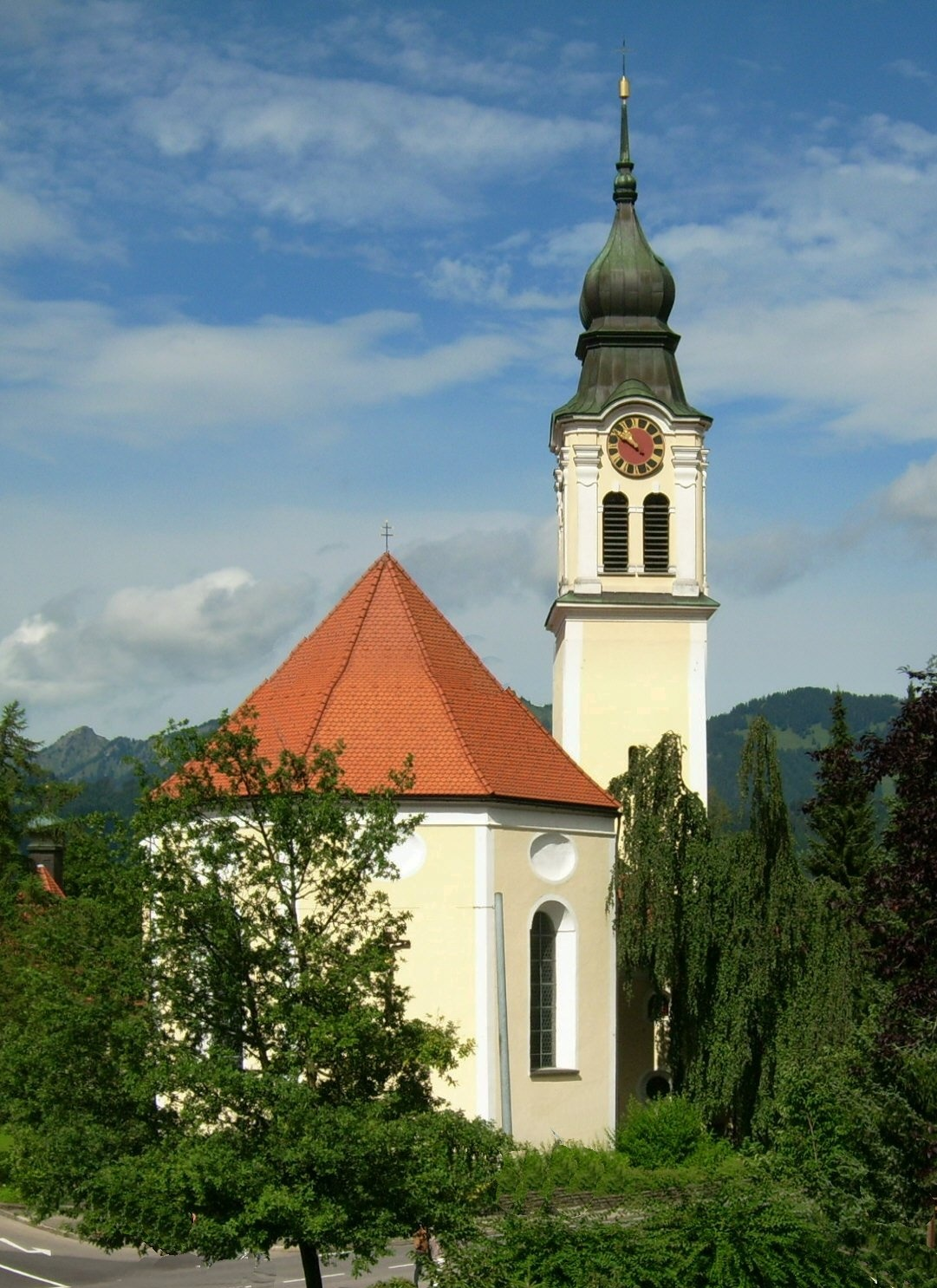 Sonthofen, view of St Michael's Parish Church from east.